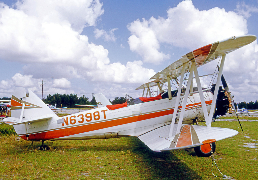 Naval Aircraft Factory N3N-3 N6398T at Fort Lauderdale International Airport in 1972